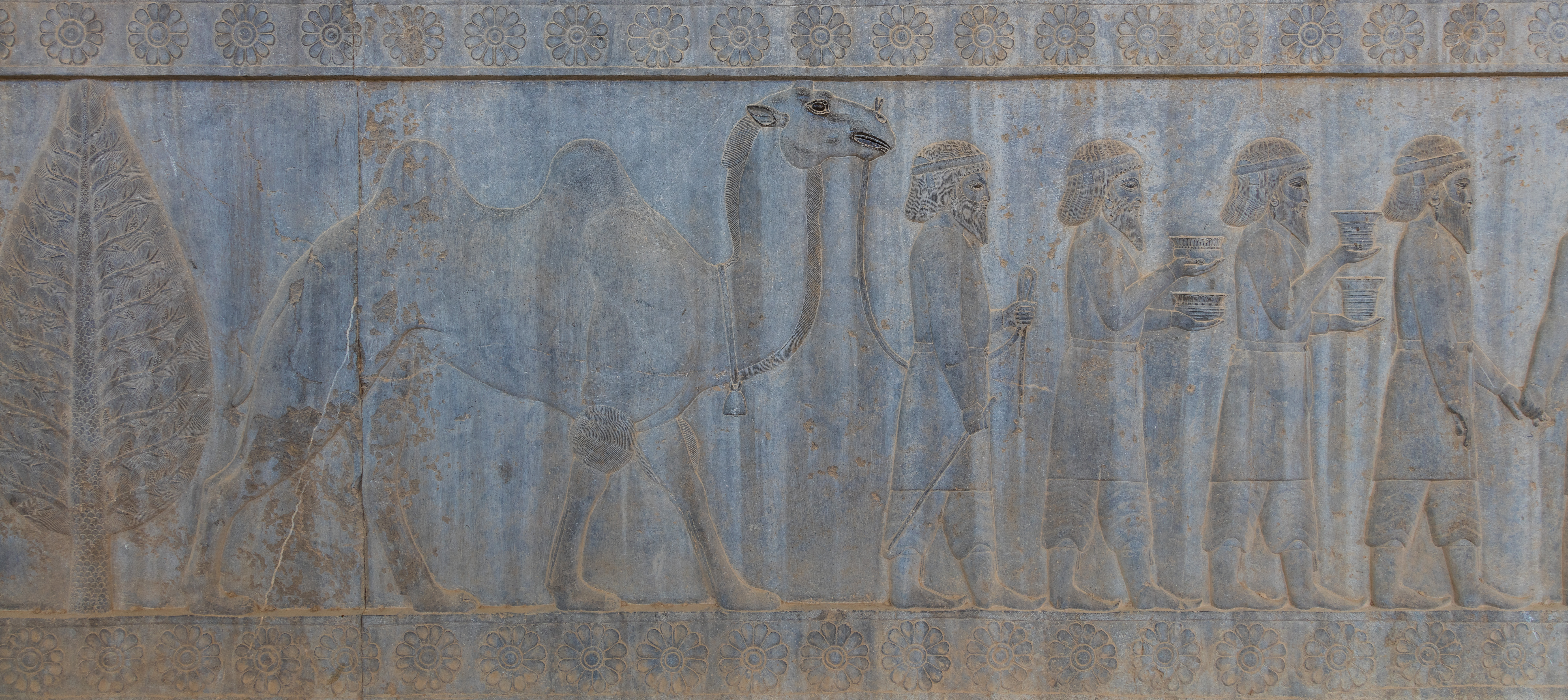 Persepolis, Iran